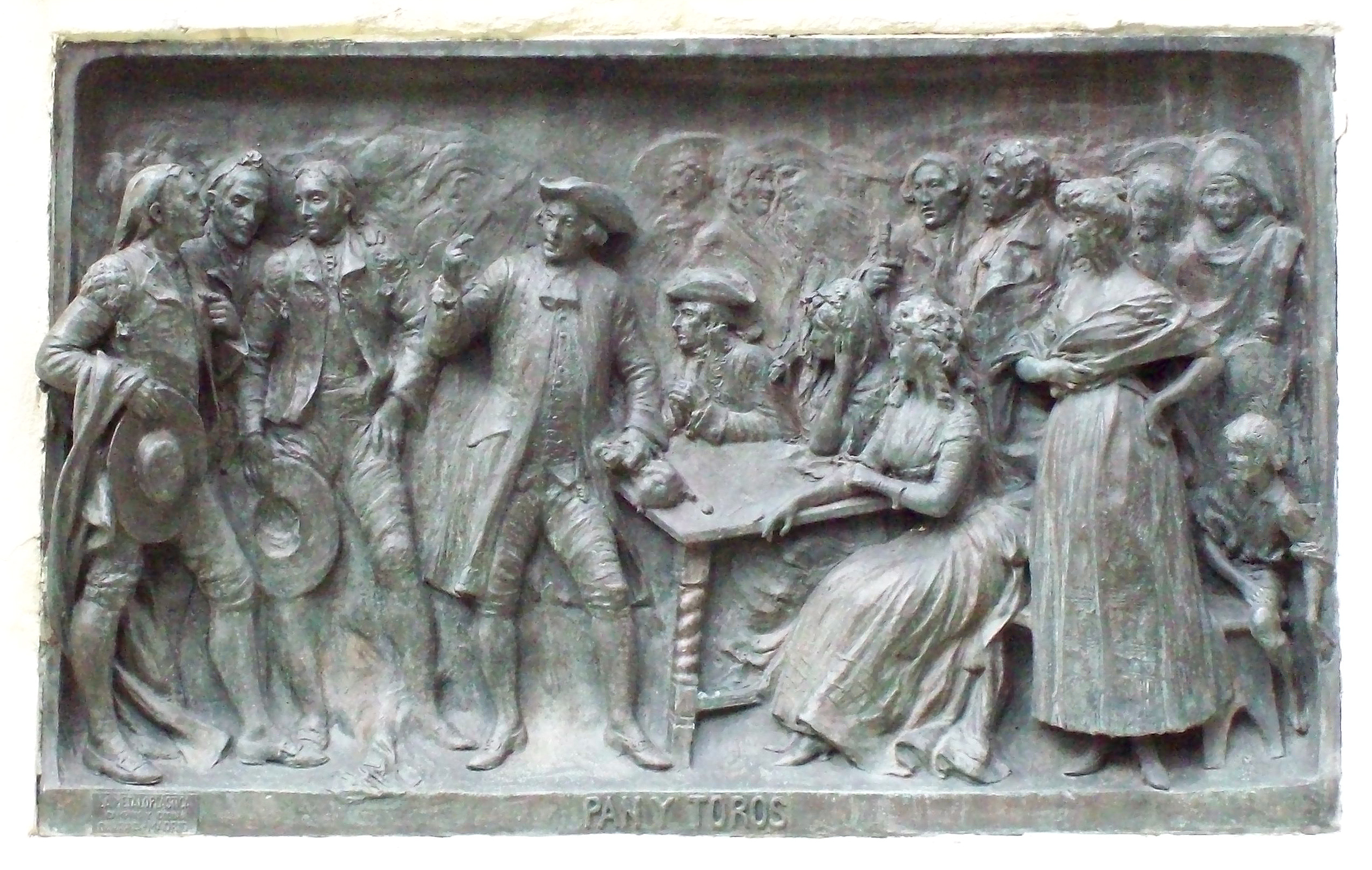 Bronze relief representing the zarzuela Pan y toros. Detail of the Monument to the Madrilenian Sainete Writers in Madrid (Spain).